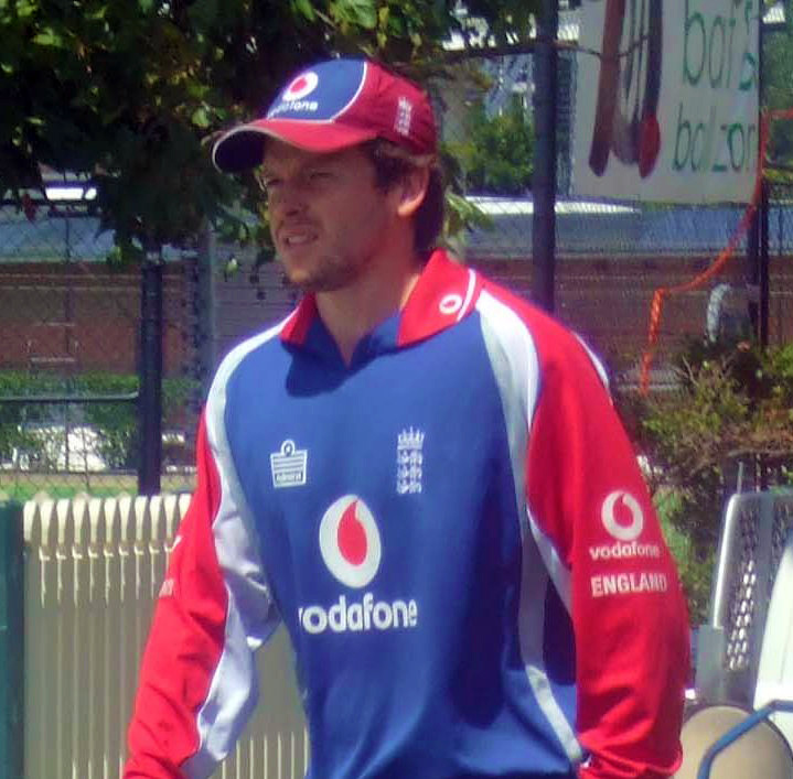 Ed Joyce cropped version of File:Ed Joyce 2007.jpg